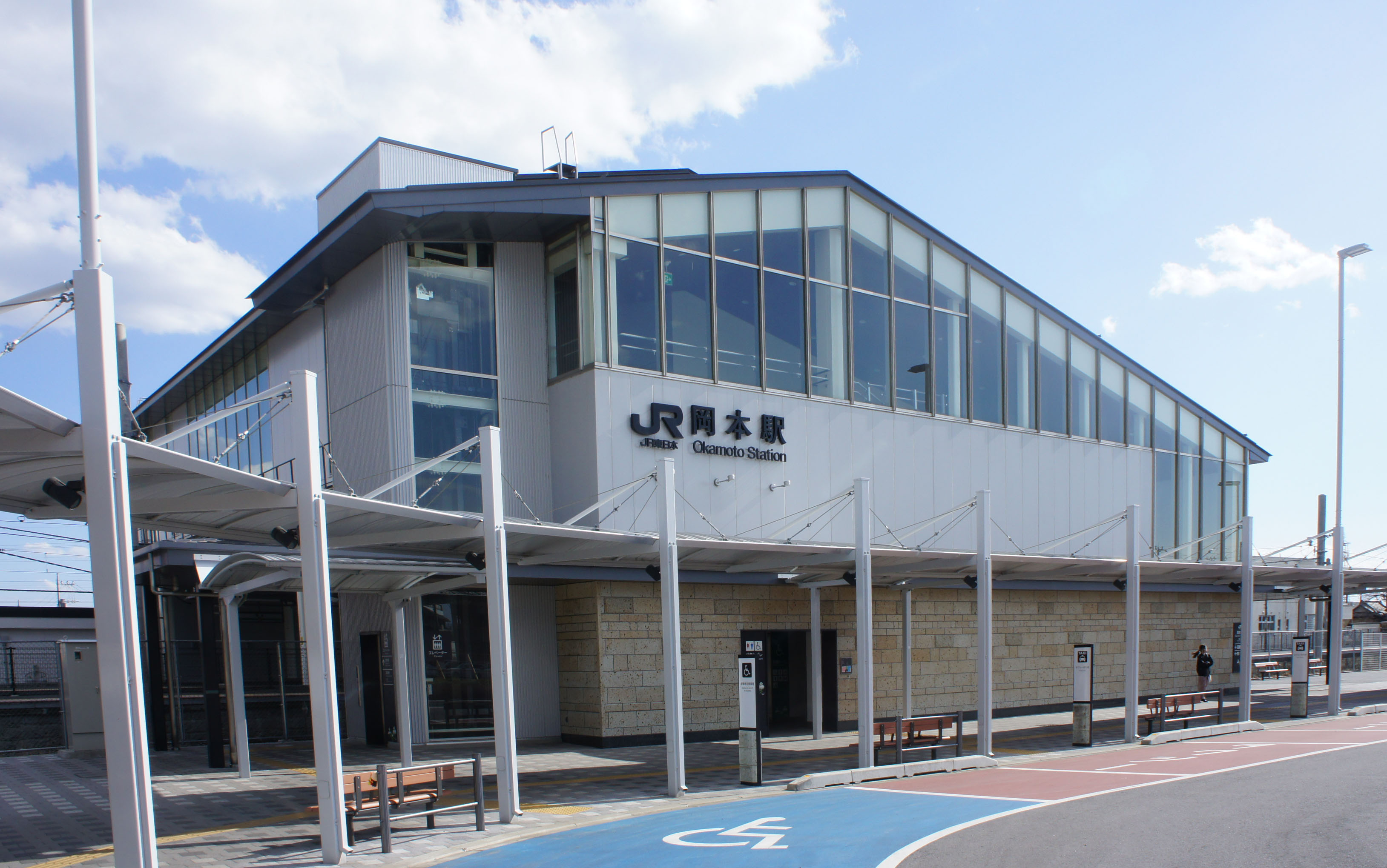 West Exit of JR Tohoku-Main-Line (Utsunomiya-Line) Okamoto Station Sony NEX-3